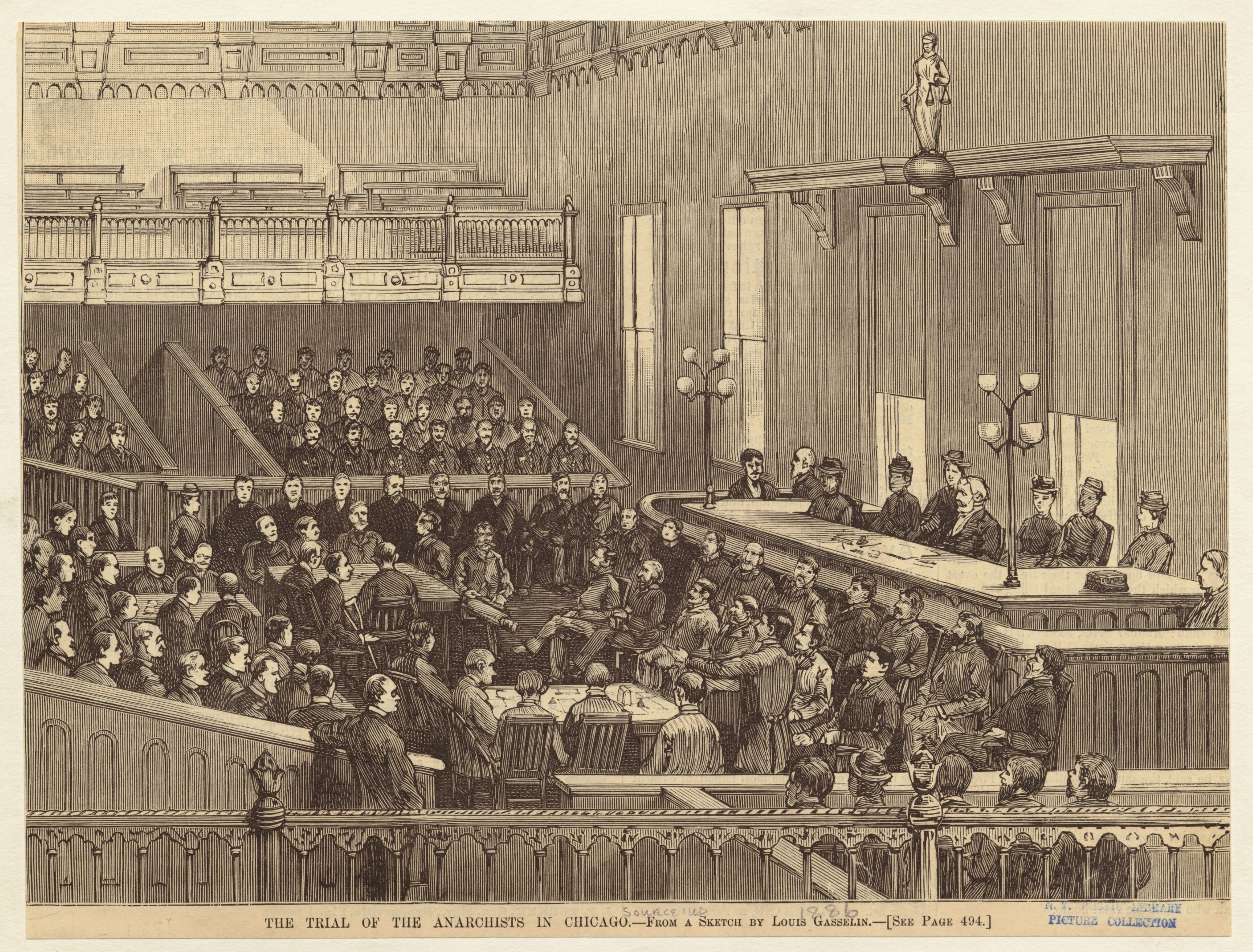 The trial of the anarchists in Chicago related to the Haymarket bombing